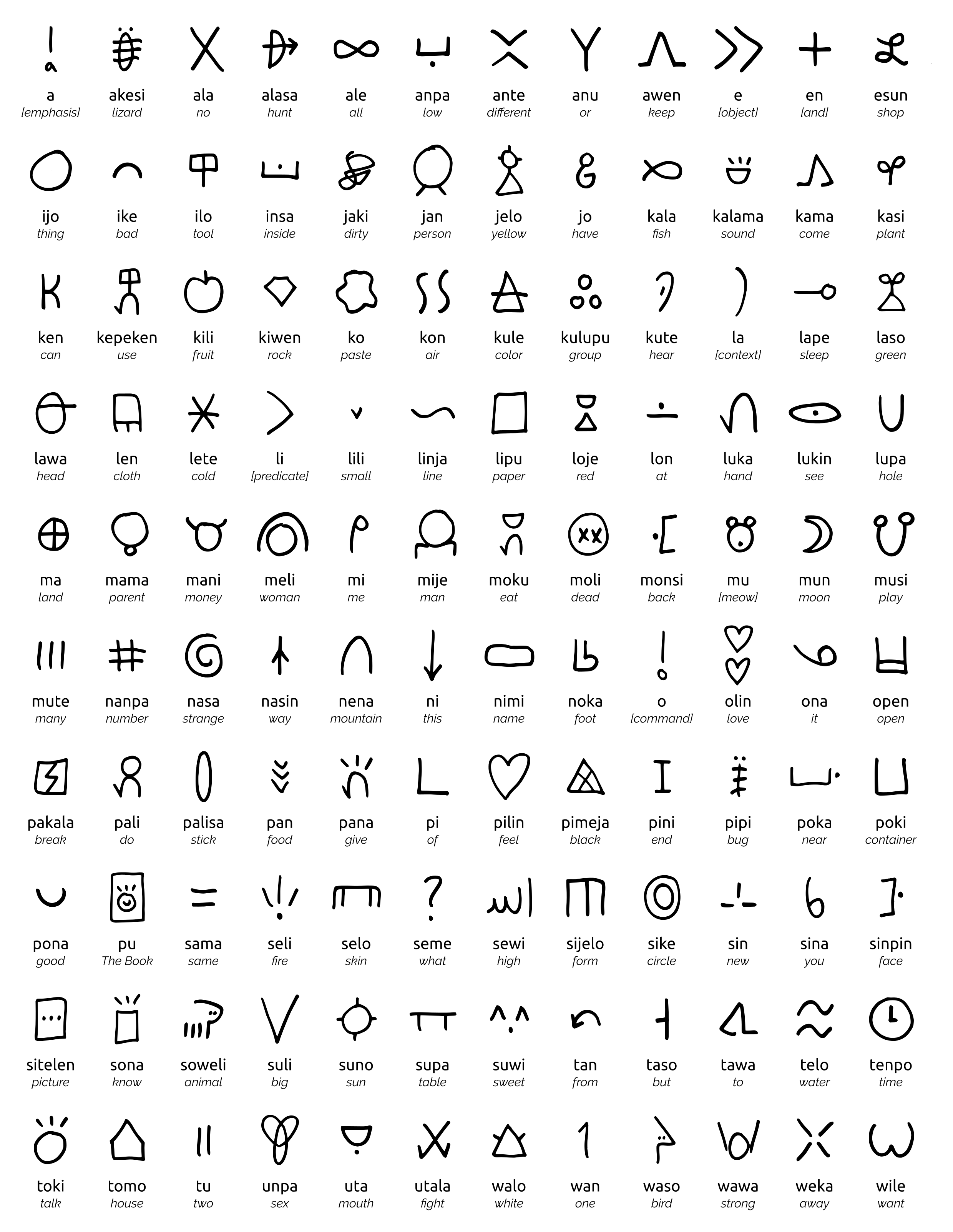 List of words and hieroglyphs in the Toki Pona constructed language